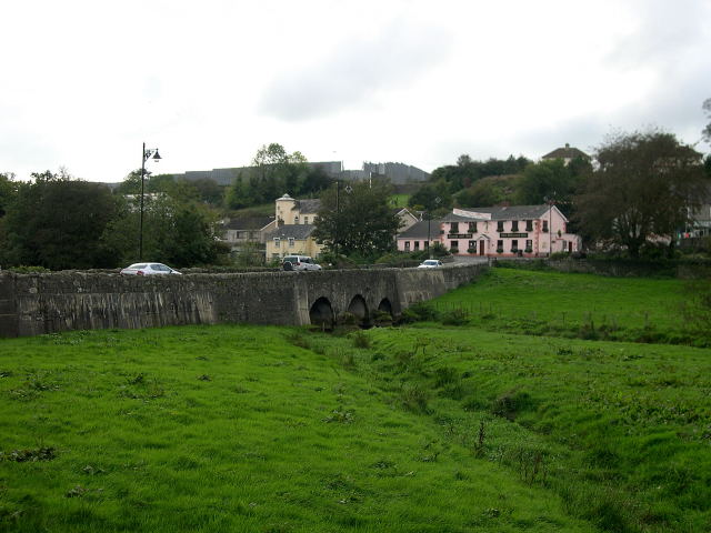 Forkhill Forkhill River and bridge into the village